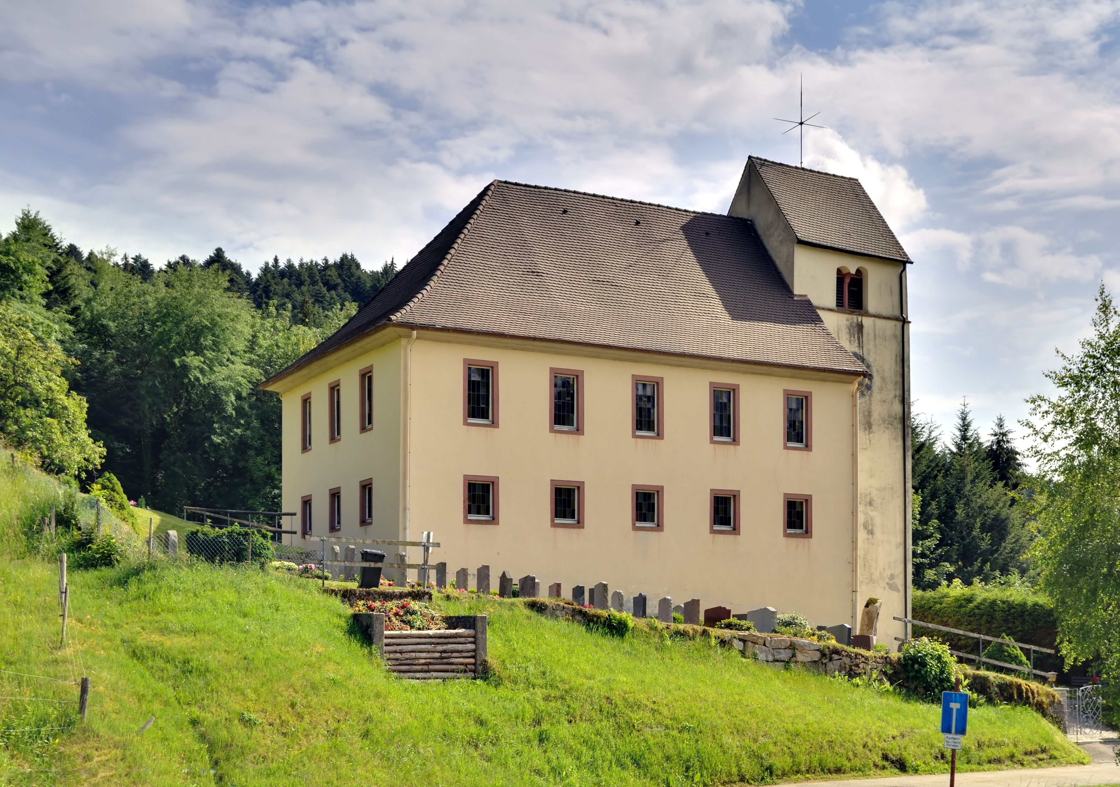 Kaltenbach: Protestant Church